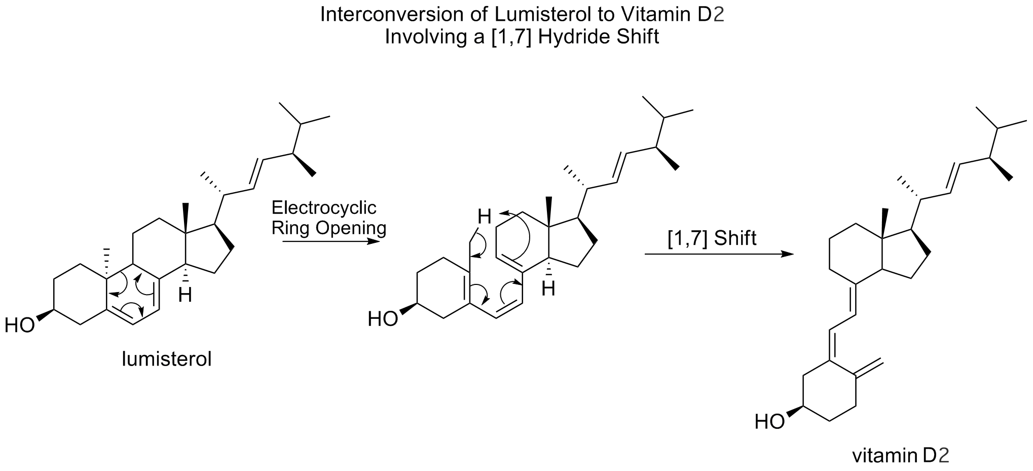 1,7-shift of lumisterol to vitamin D2